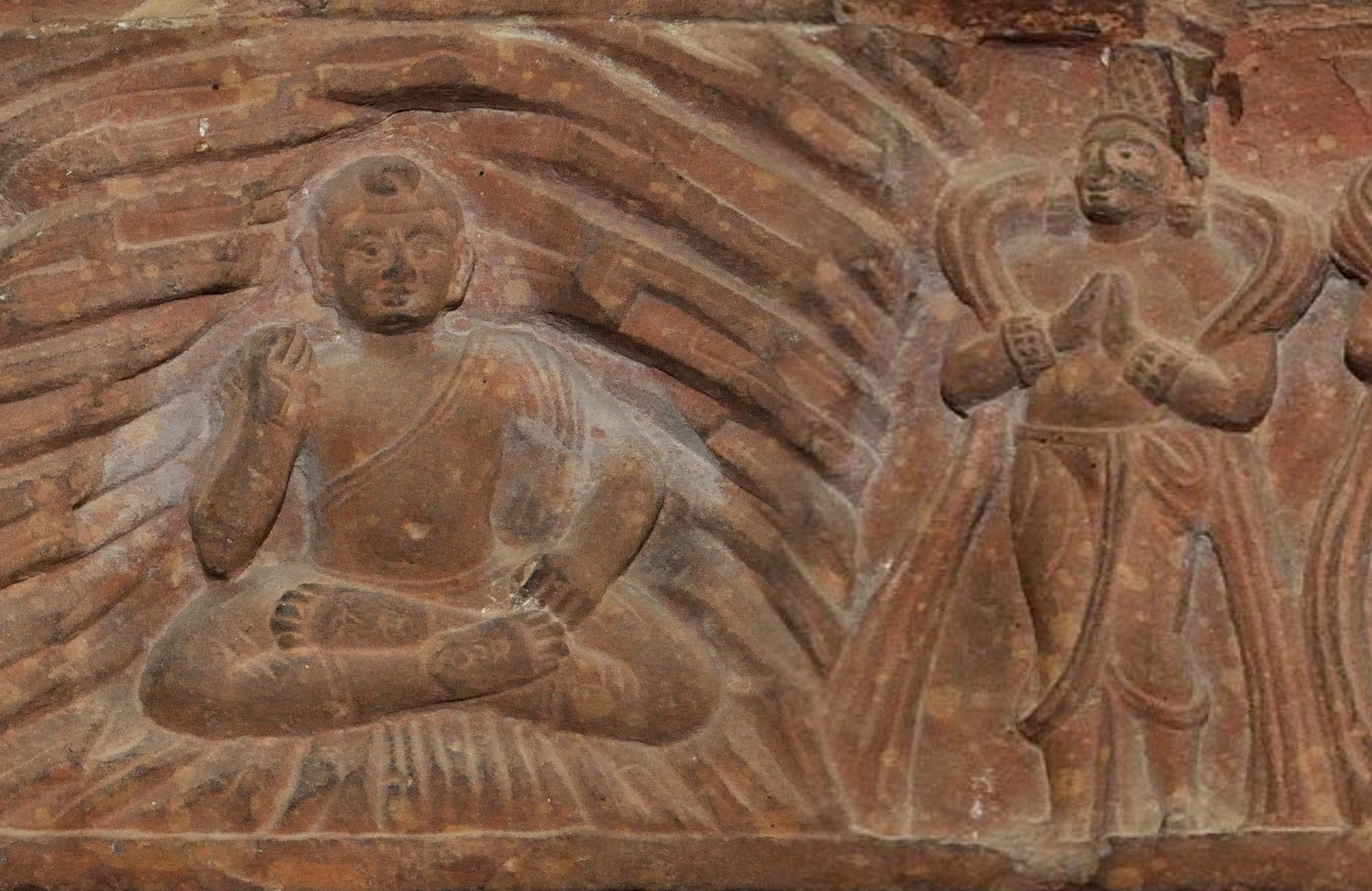 The Buddha attended by Indra at Indrasala Cave, Mathura 50-100 CE